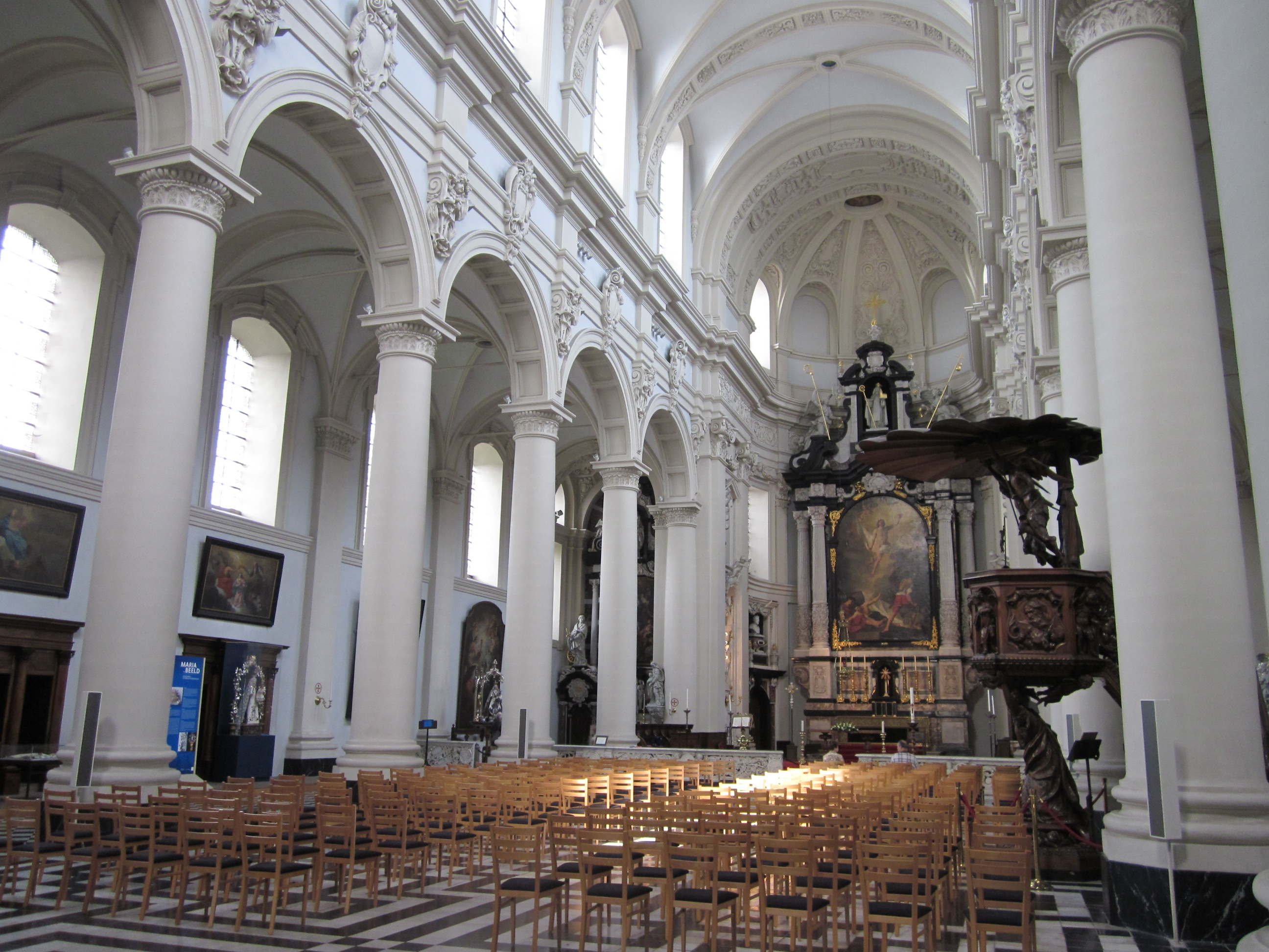 Church of Saint Walburga in Bruges, Belgium